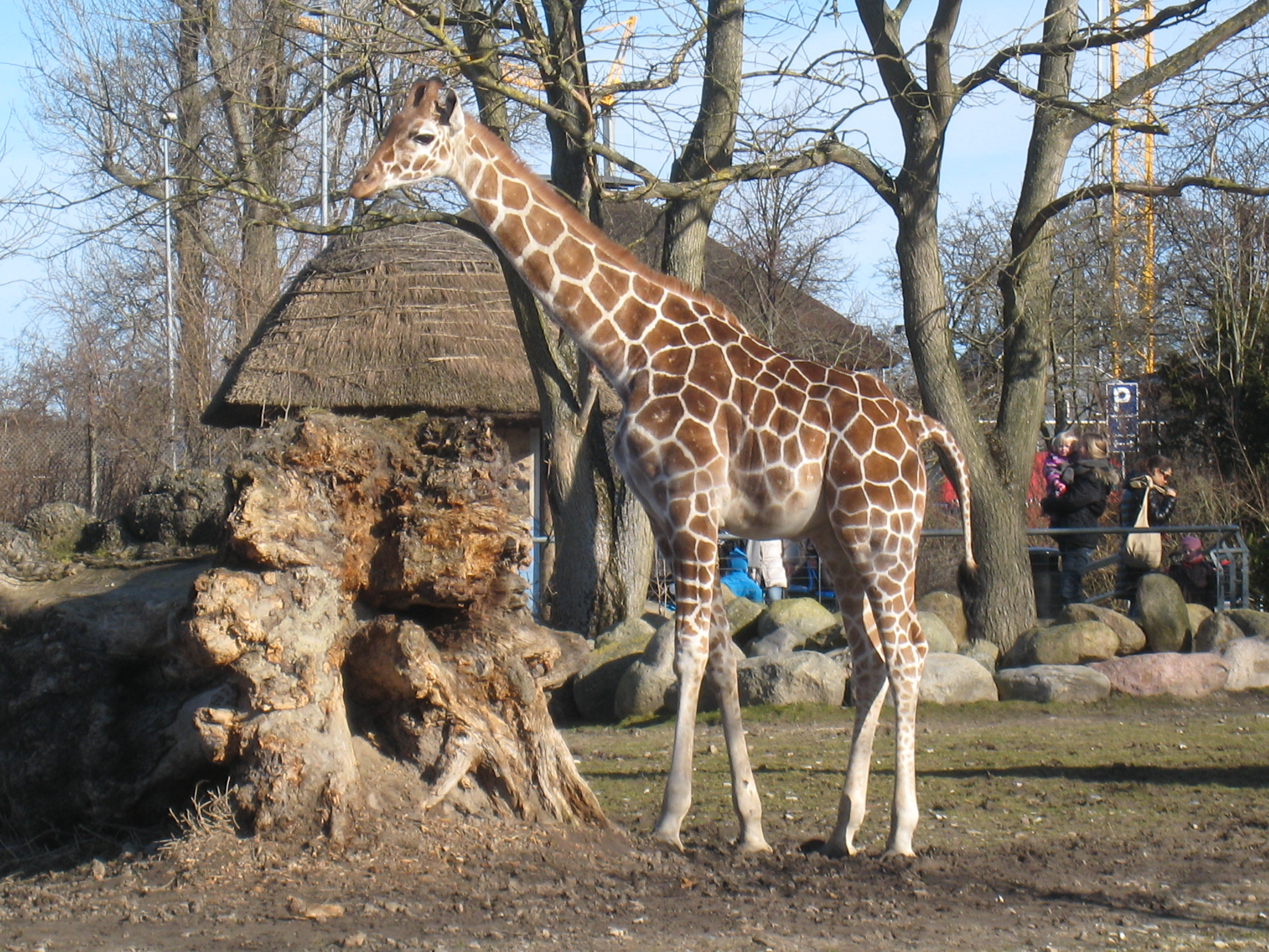 Giraffes in Copenhagen zoo